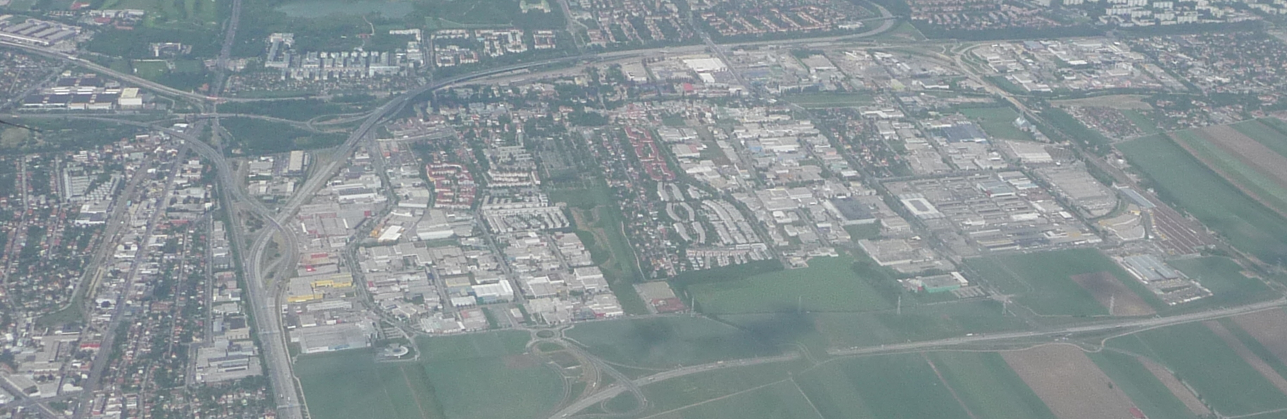 Vienna by Air